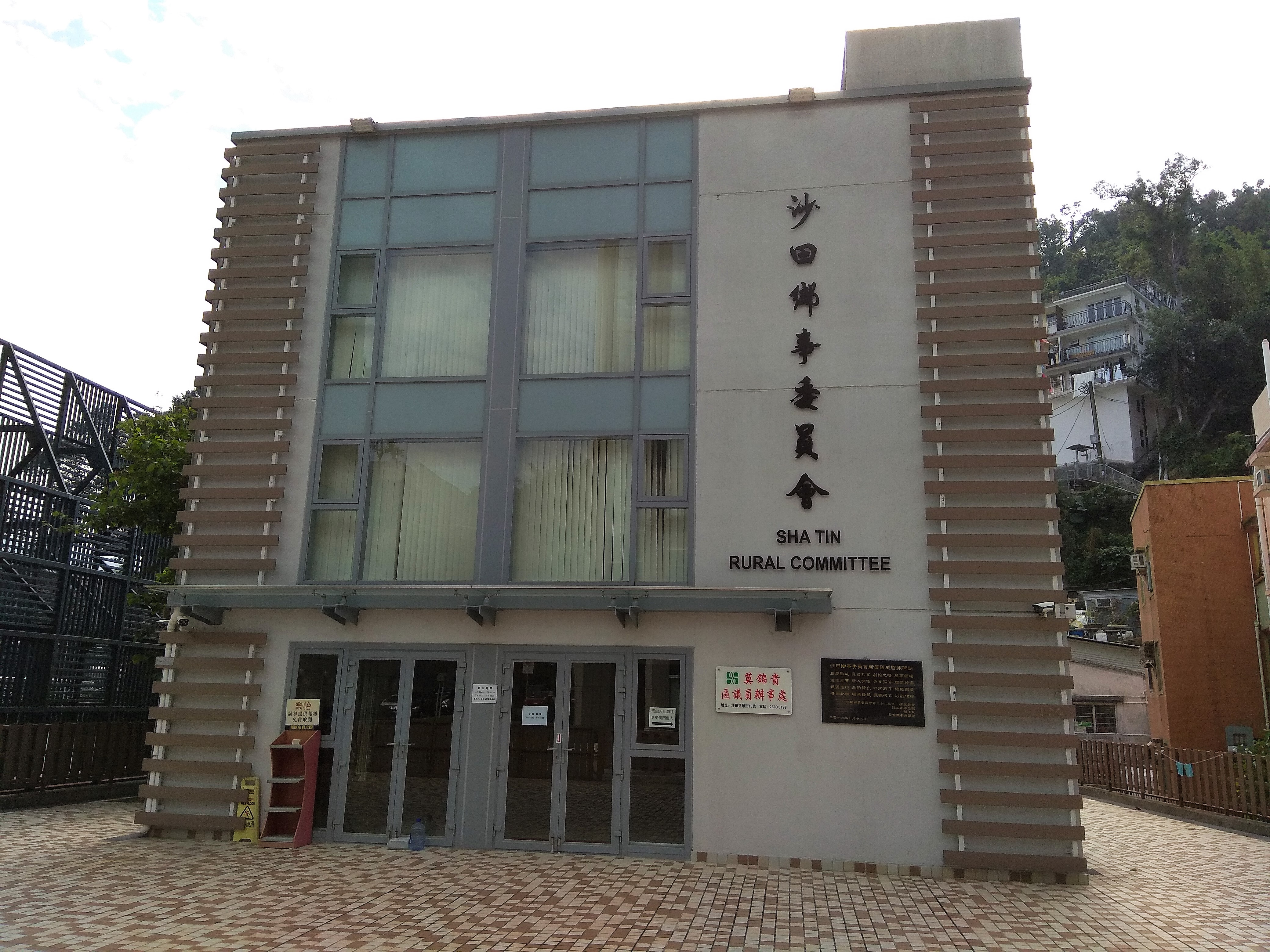 Shatin Rural Committee